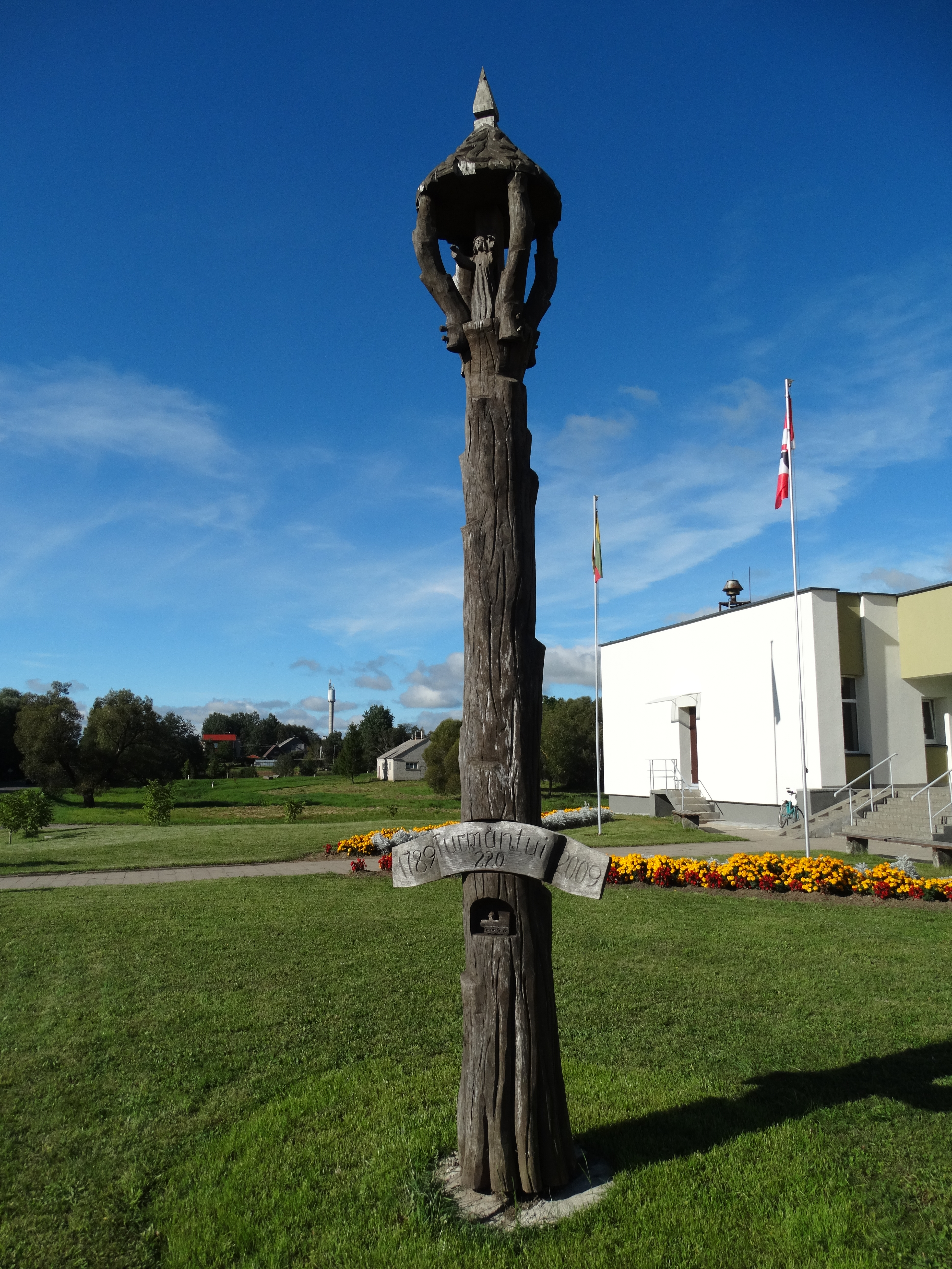 Turmantas, Zarasai district, Lithuania